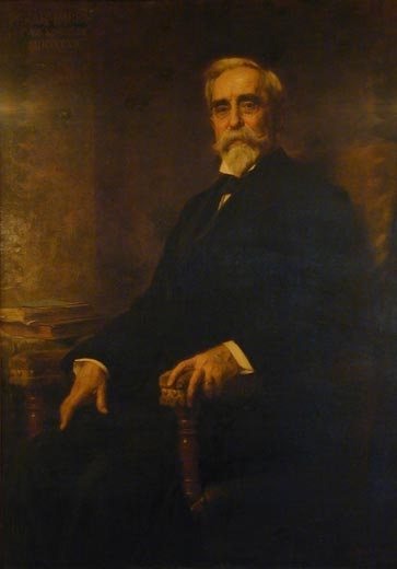 Portrait of Imre Pekár